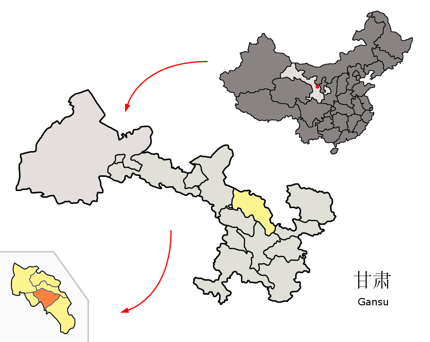 Location of Jingyuan County within Gansu (China)